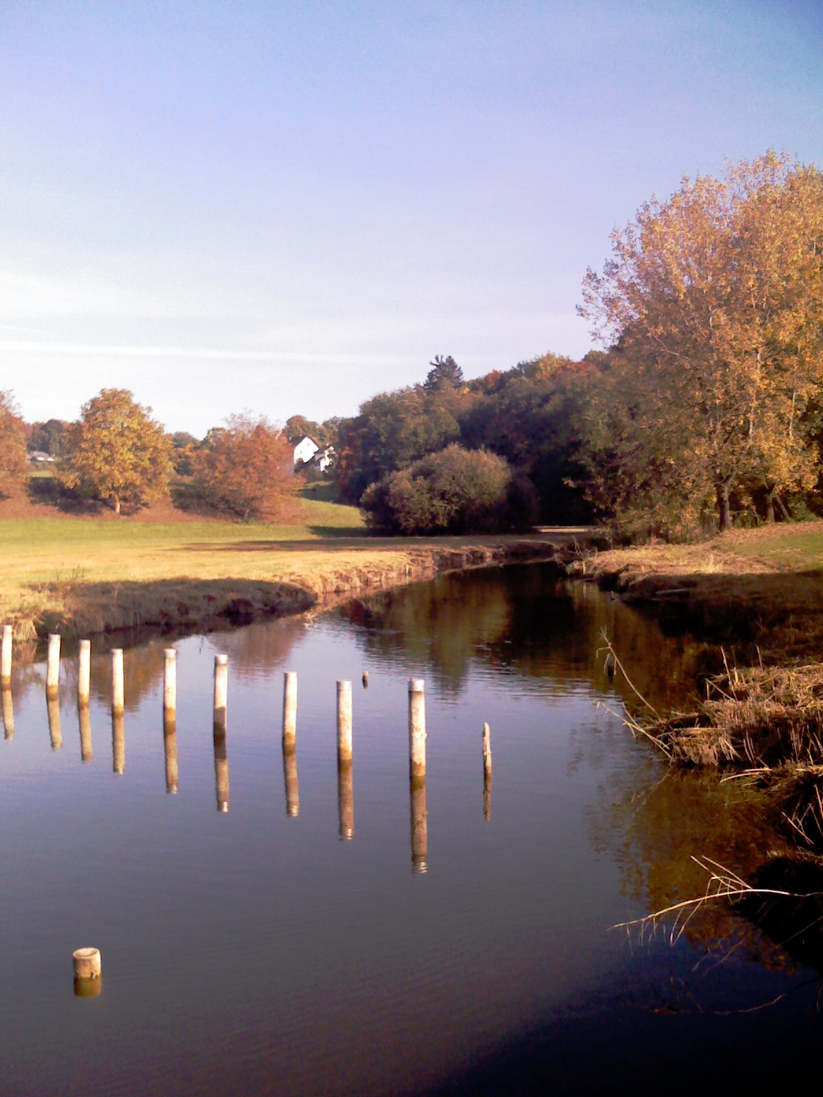 Lützelsee and FeldbachEsperanto: Lageto Lützelsee kun rigardo al la elfluejo al Feldbach